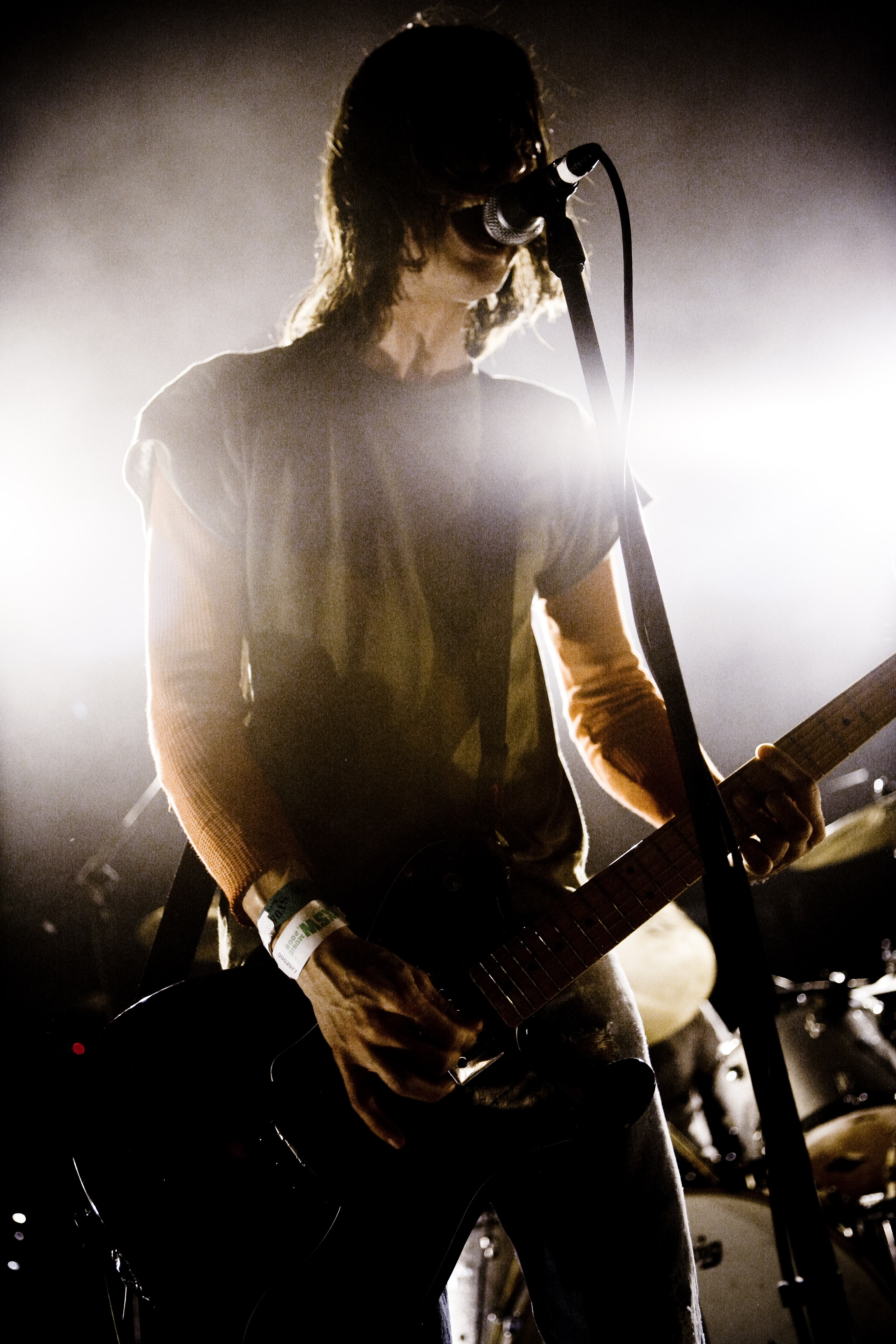 Dead Confederate performing at South by Southwest in 2008. Photographed by Kris Krug.